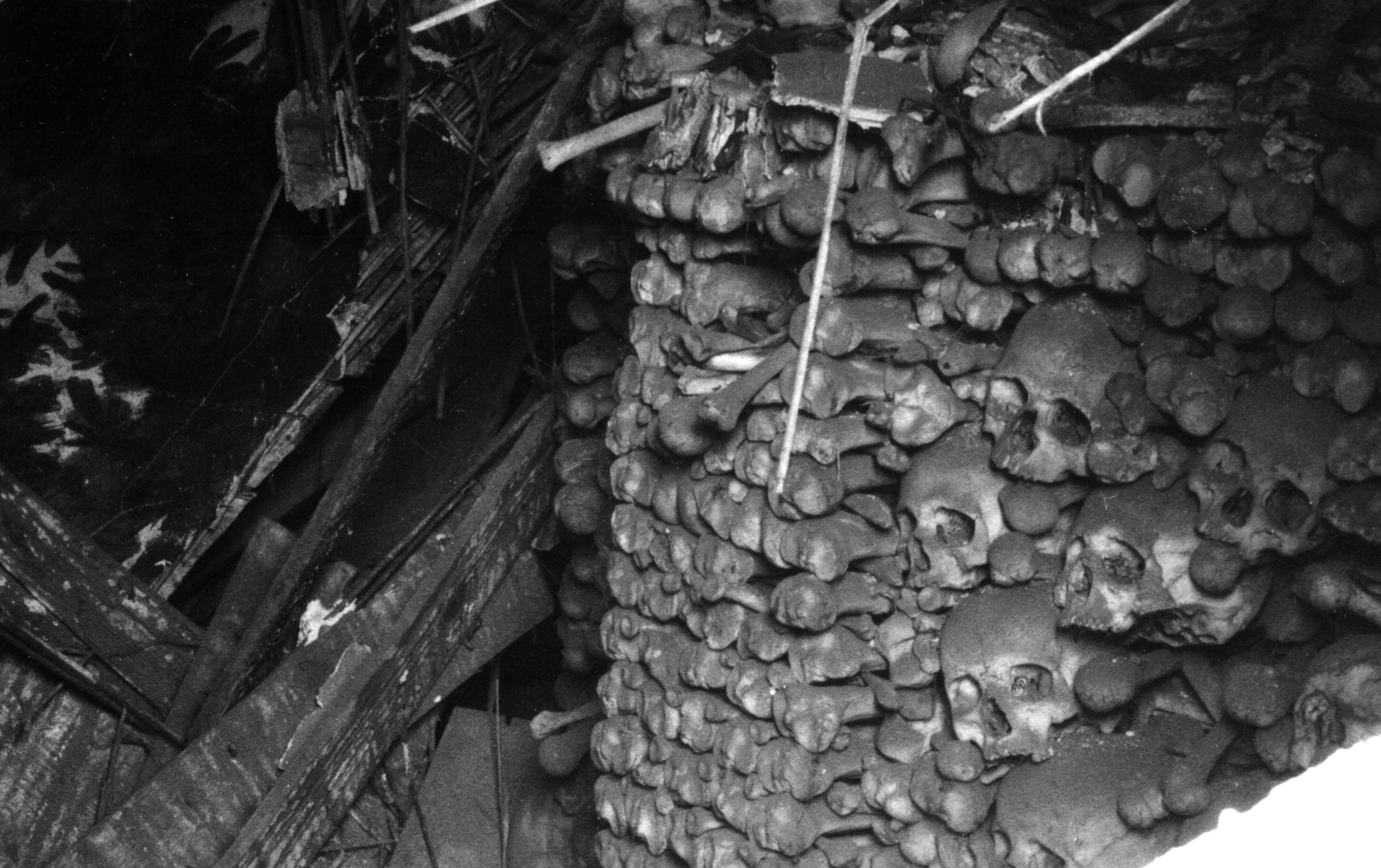 sedlec ossuary in Kutná Hora, Czech Republic photographed by Stefan Richter 1990